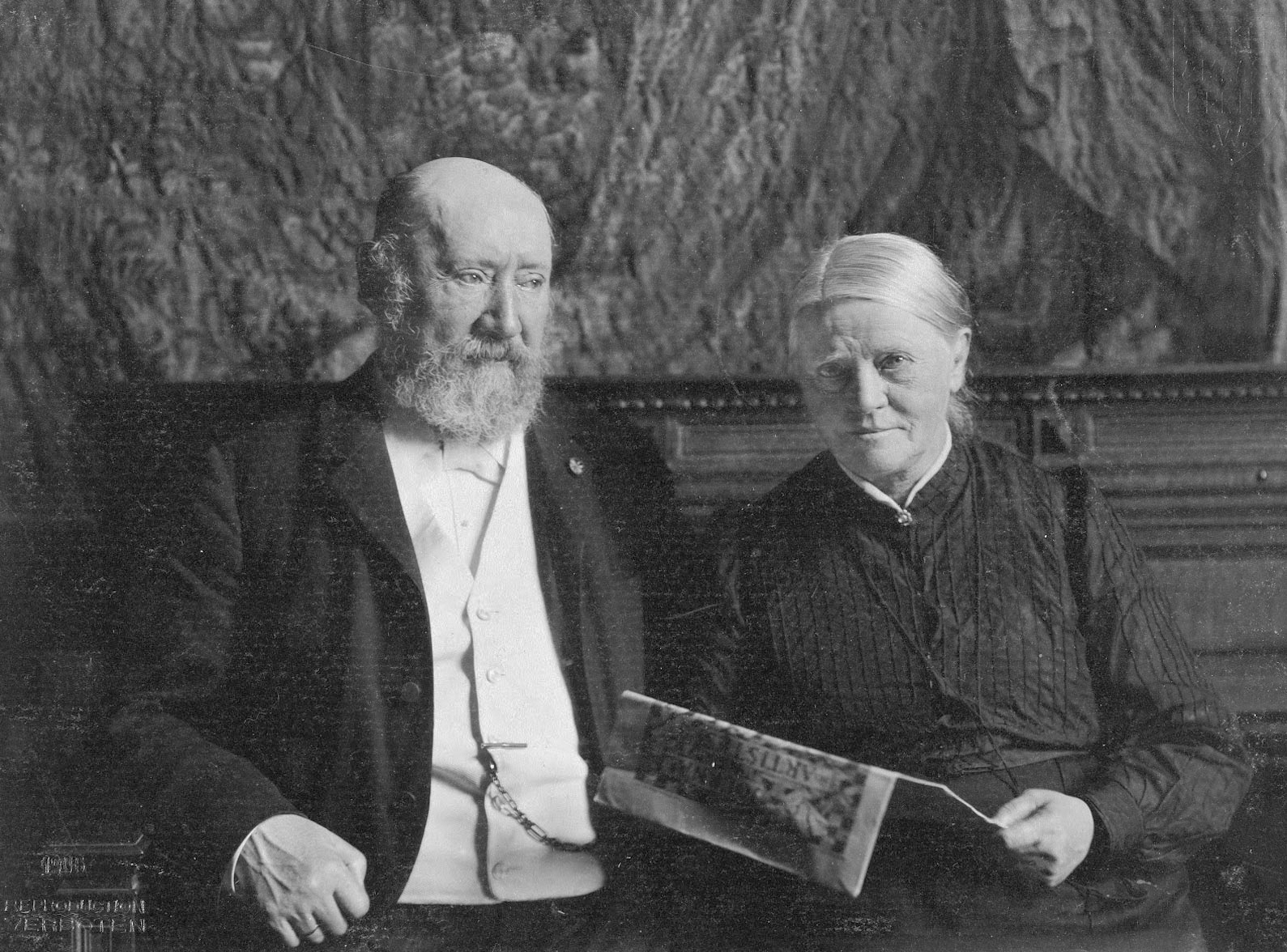 Hendrik Willem and Sientje Mesdag 1905